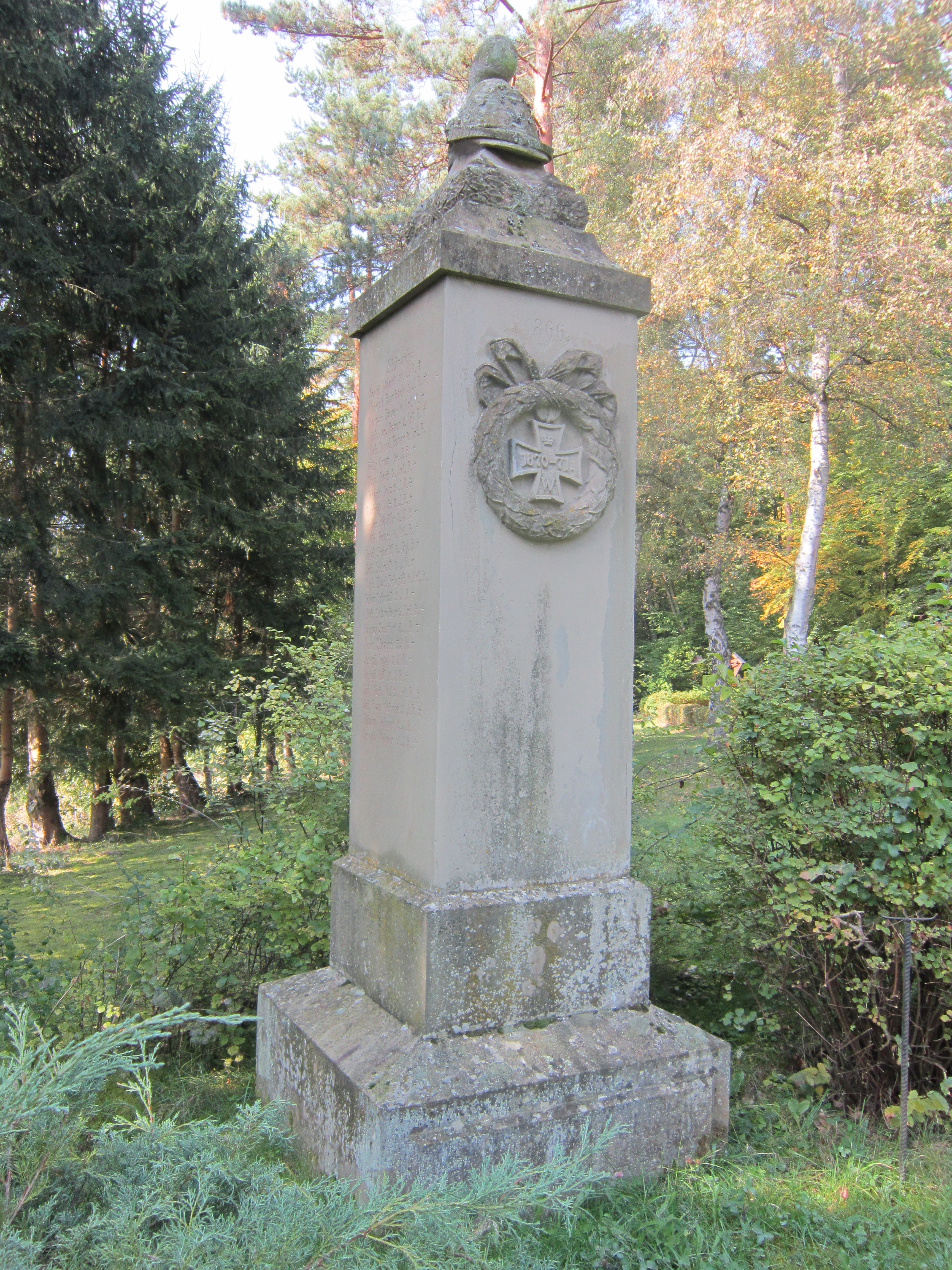 Monument for the Franco-Prussian War at the war memorial in Steinach, a quarter of the German spa town of Bad Bad Bocklet in Lower Franconia (Bavaria).